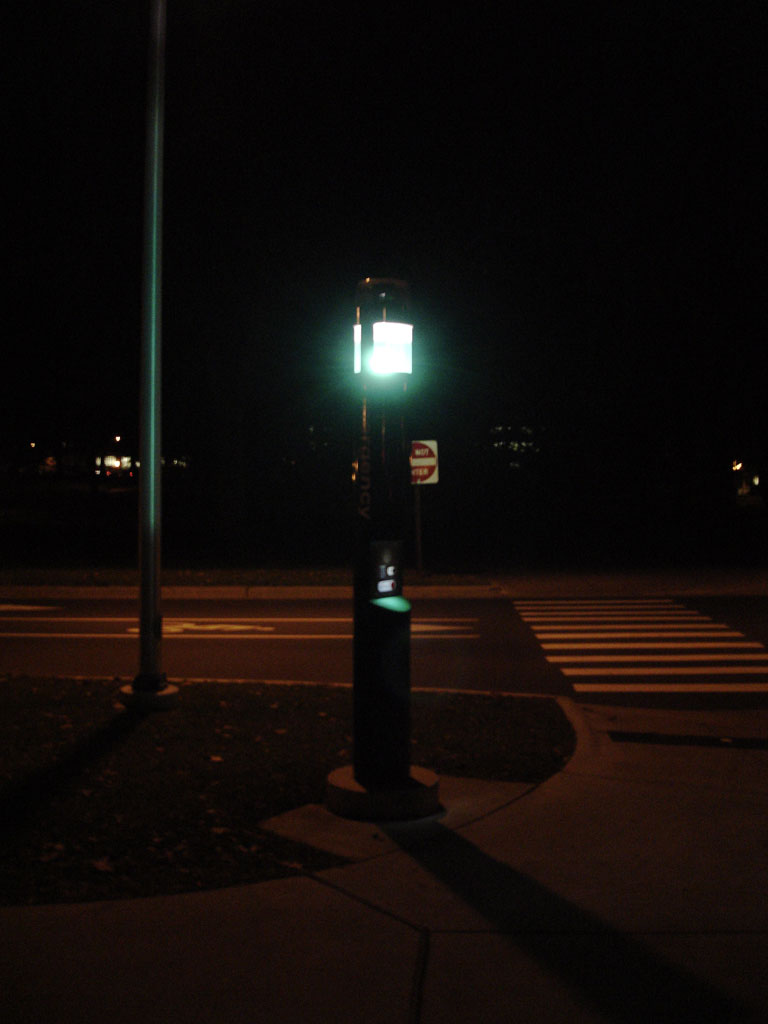 A modern-style Michigan State University "green light" phone. These emergency telephones have been on campus for more than 40 years and today there are over 150 of them. Source: [1] Picture taken by me on November 9th, 2006. I release it into public domain. Shadowlink1014 04:46, 10 November 2006 (UTC)